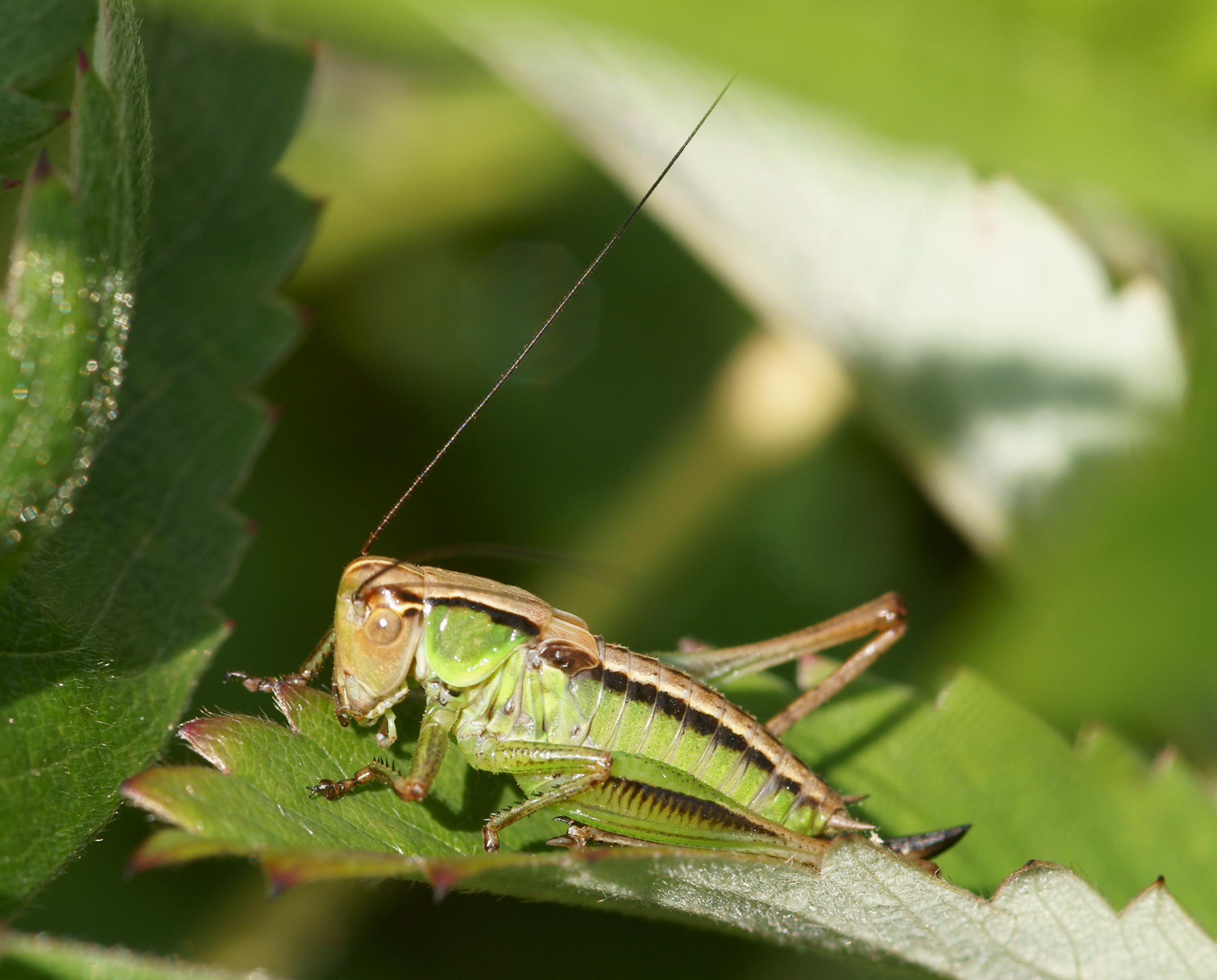 Roesel's bush-cricket (Metrioptera roeseli) on leaf of Potentilla palustris.